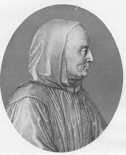 Jean Mabillon Jean Mabillon